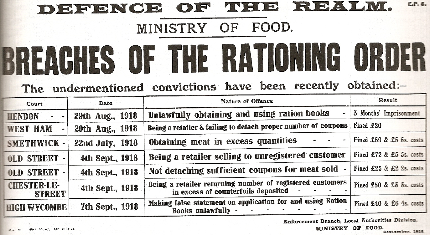 A British government leaflet describing various penalties given out to people breaching the wartime rationing legislation.